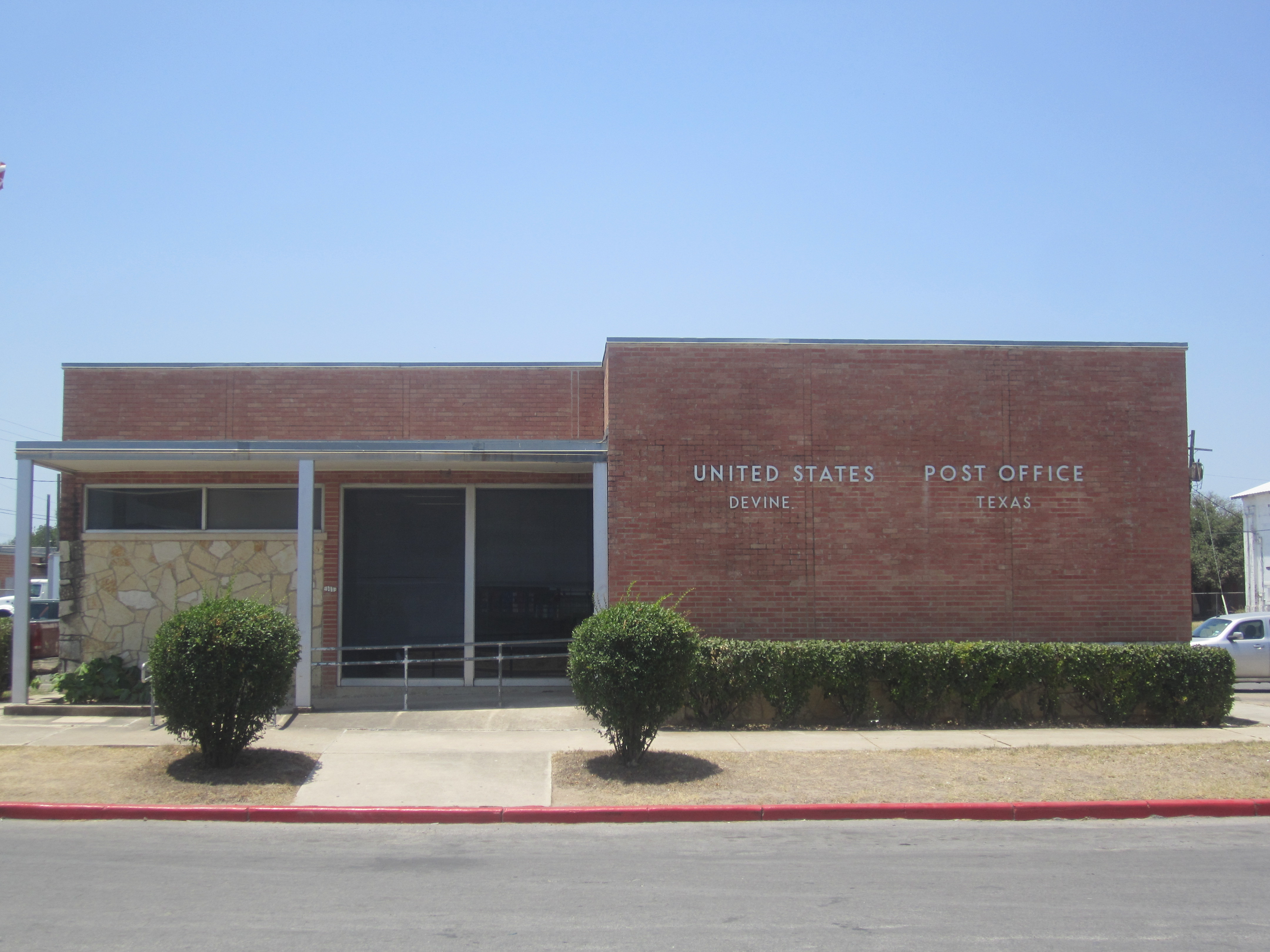 I took photo with Canon camera in Devine, TX, of the local post office.